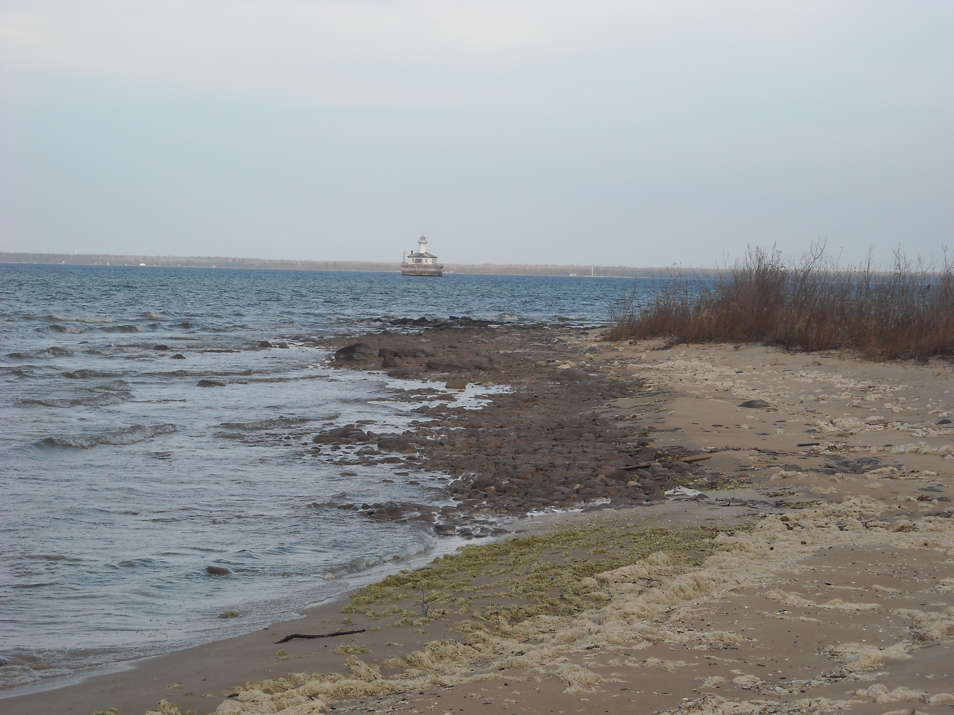 Beach at Cheboygan state Park and 14 Foot Shoal Light